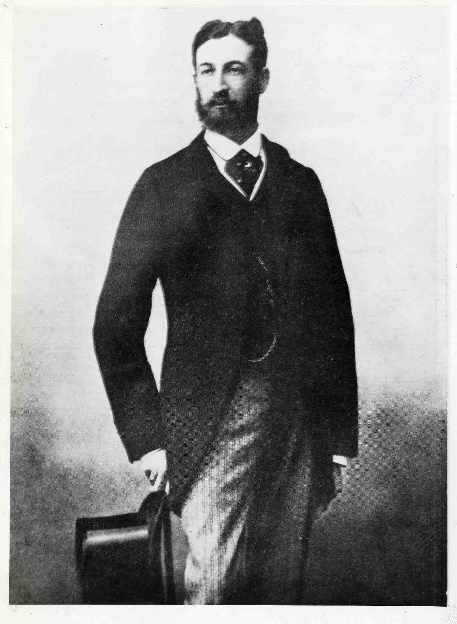 People of Israel